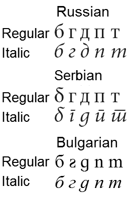 An overview of special Cyrillic letters used in Macedonian and Serbian, compared with the same letters in standard Cyrillic. The Cyrillic characters are written with Adobe Minion Pro, an Open Type font.